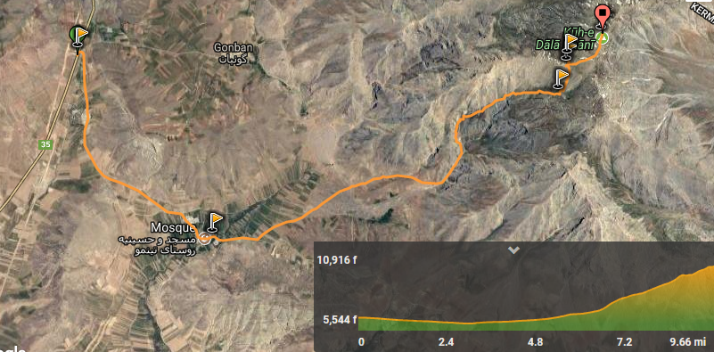 مسیر تینمو کوه دالاخانی